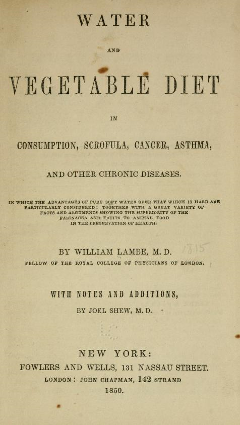 Front cover of Water and Vegetable Diet, published in 1850.